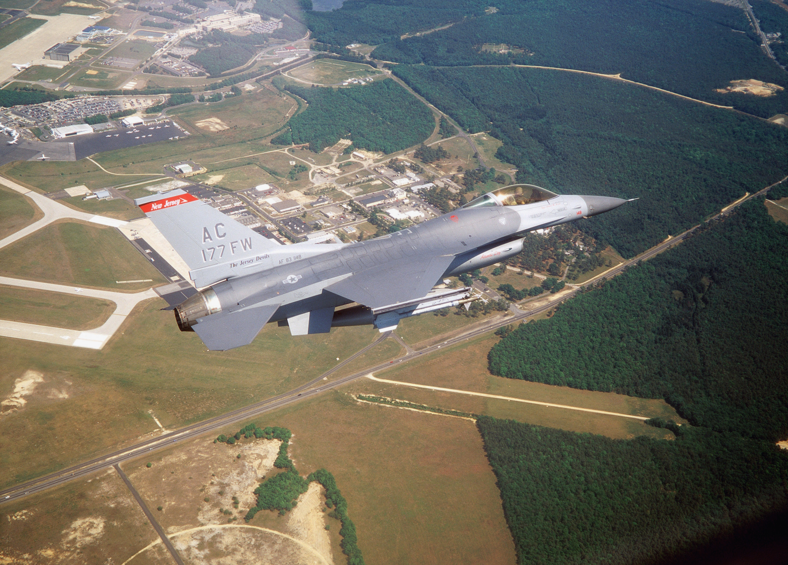 A U.S. Air Force General Dynamics F-16C Block 25B Fighting Falcon (s/n 83-1148) piloted by Lieutenant Colonel Mike Cosby, 177th Fighter Wing Commander, New Jersey Air National Guard, in flight on 25 May 2001.